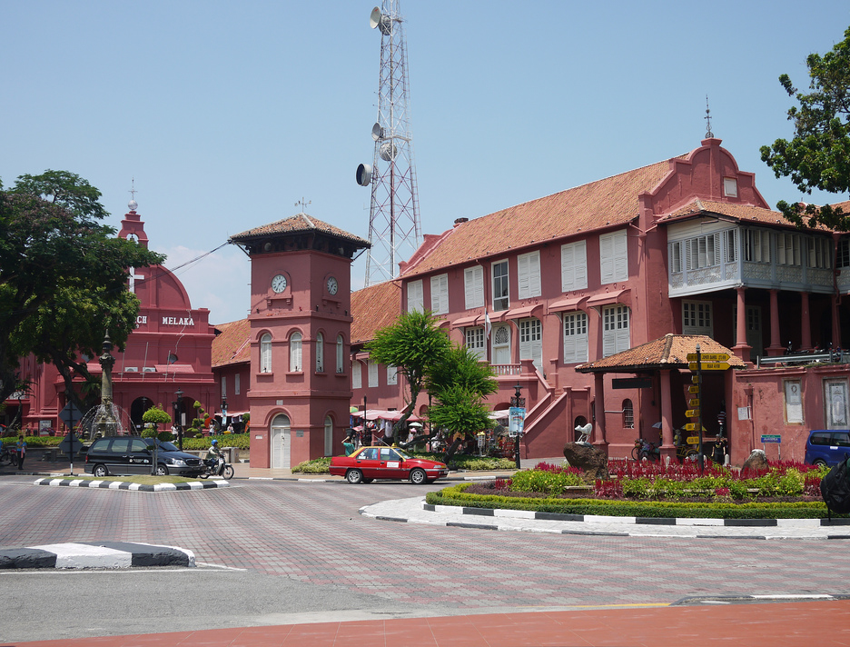 Dutch Square in the city of Malacca (Melaka), Malaysia.